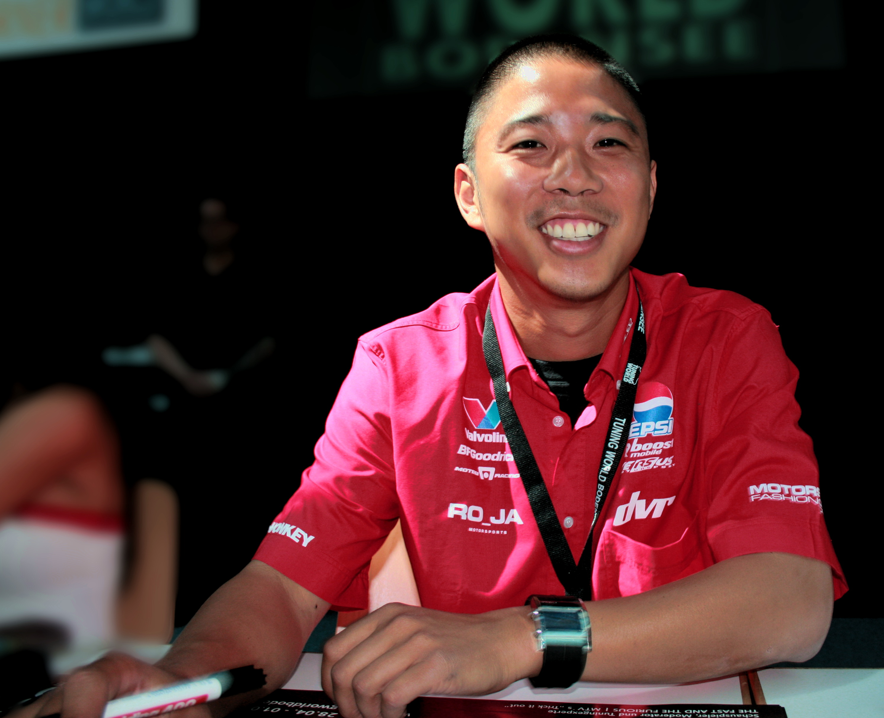 RJ deVera